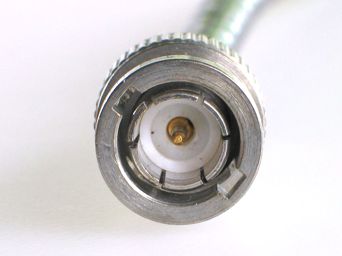 BNC connector, photo taken in Sweden